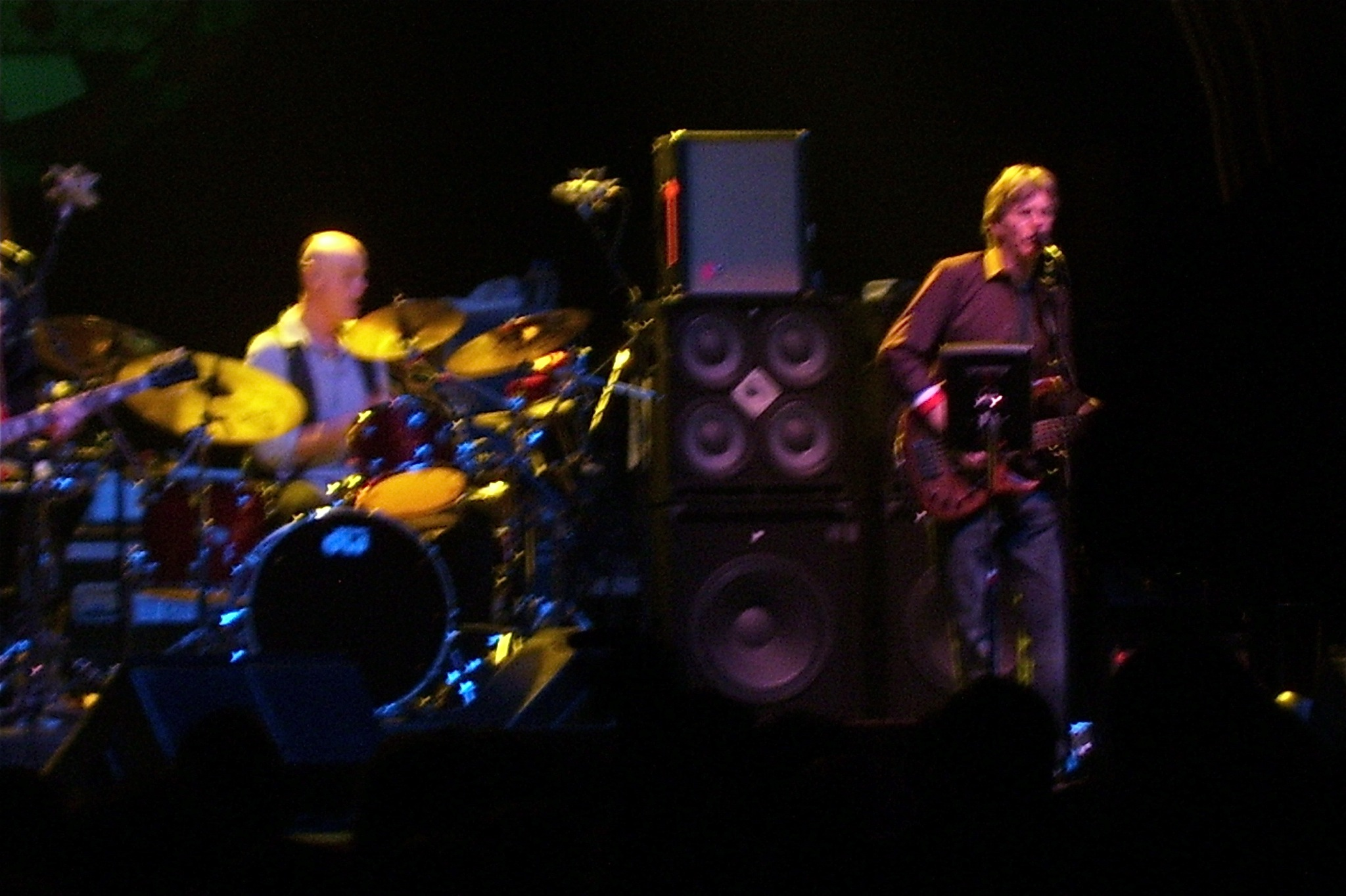 Photo taken by GlowStick Judy!